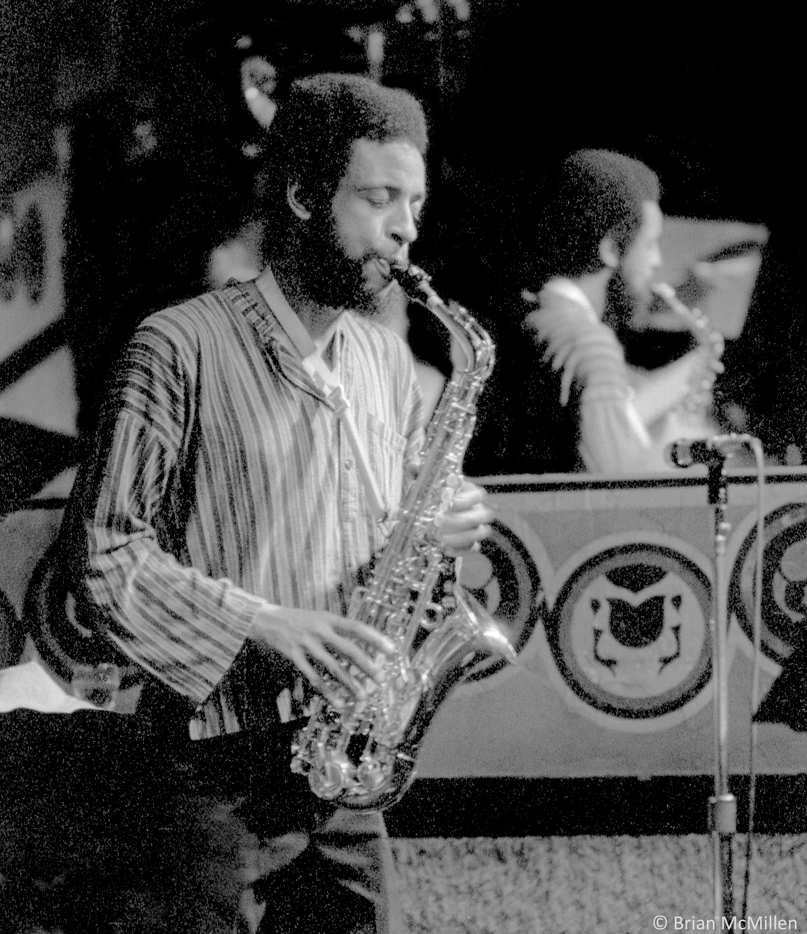 Henry Threadgill at Keystone Korner, San Francisco CA 4/5/79 w/AIR, including Fred Hopkins & Steve McCall. Photo by Brian McMillen /